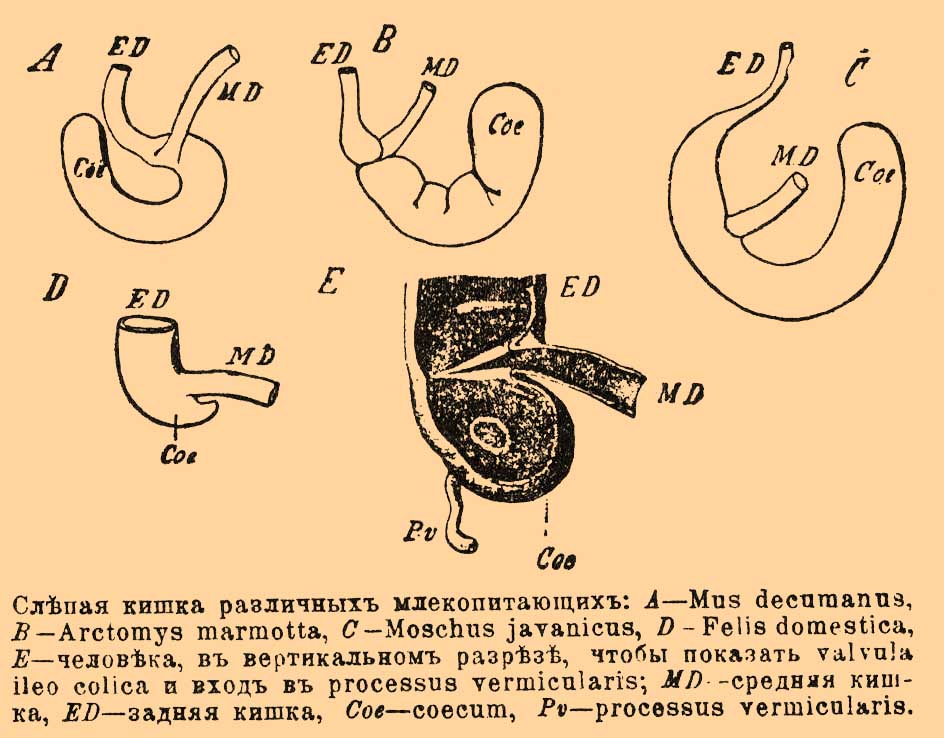 Illustration from Brockhaus and Efron Encyclopedic Dictionary (1890—1907).